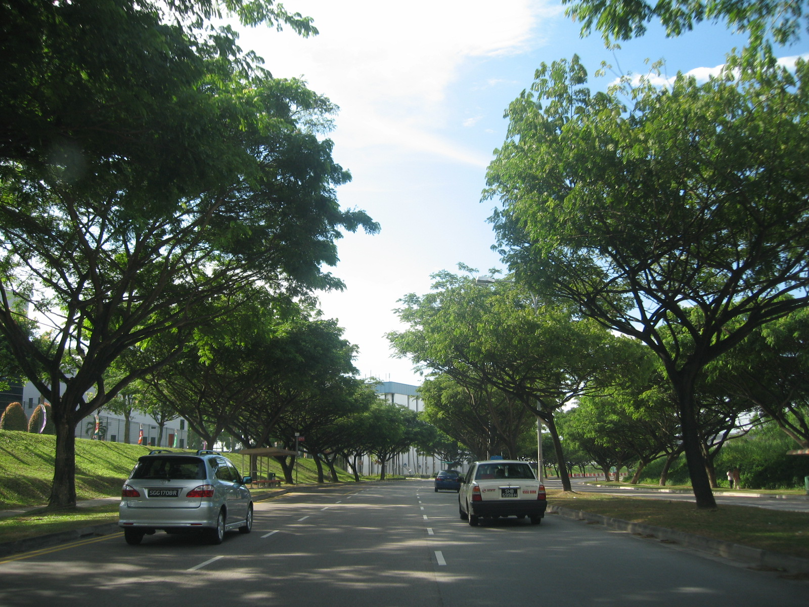 Tampines Avenue 10.